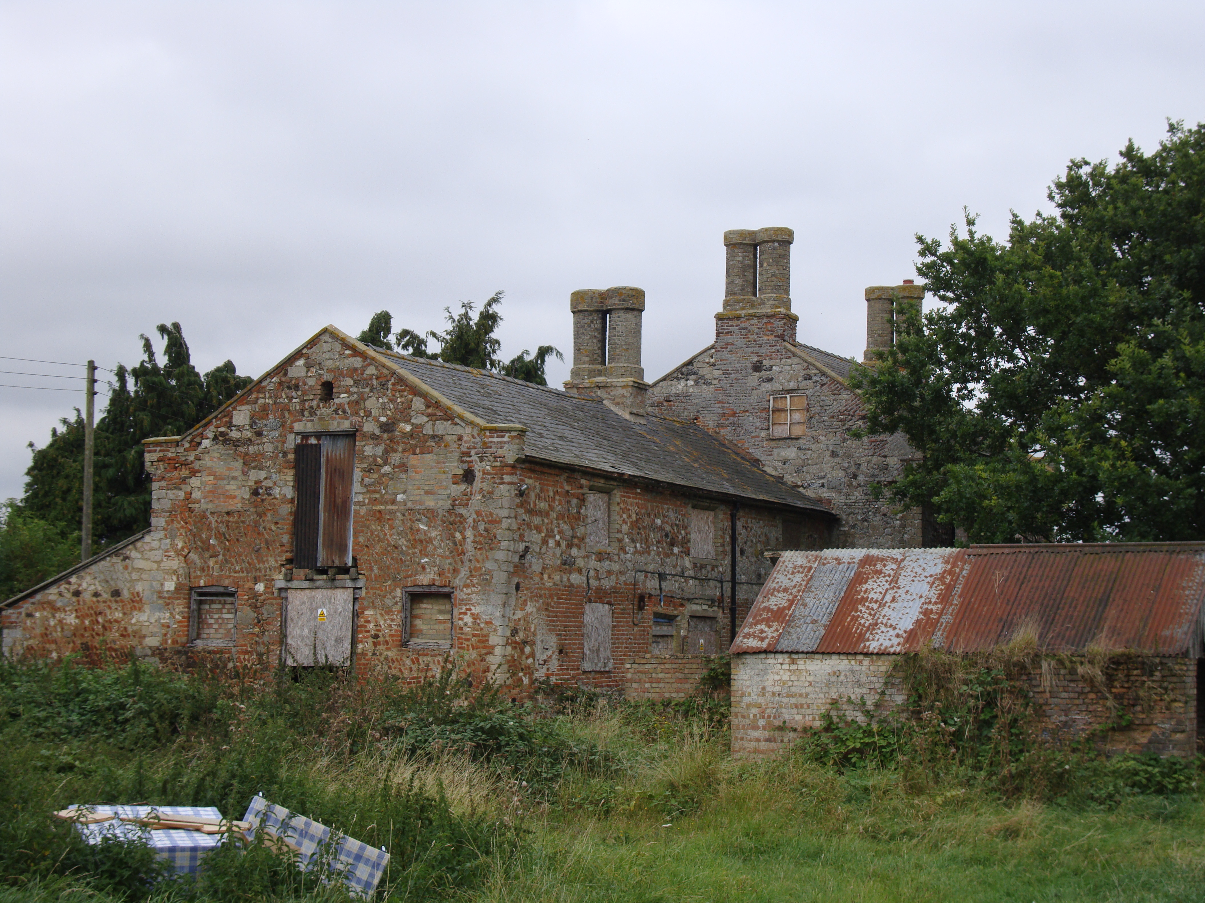 Photograph of Winnold House, probably incorporating the remains of St Winwaloe's Priory, Norfolk, England